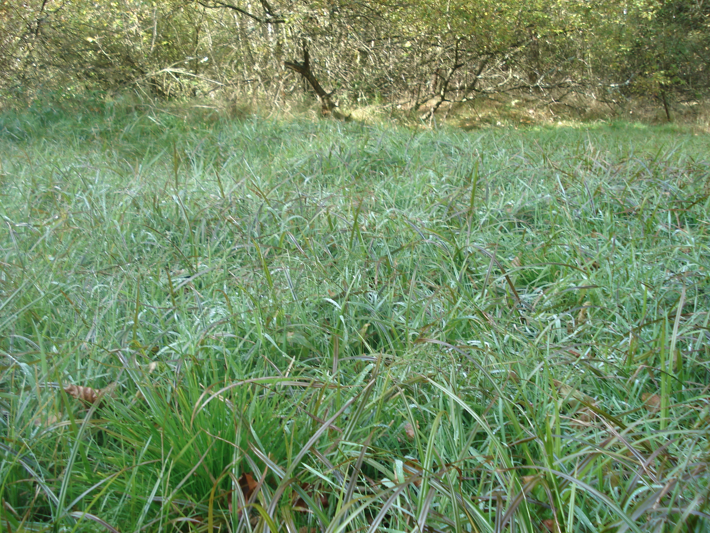 National nature reserve Hojkovské rašeliniště in Jihlava District, Czech Republic